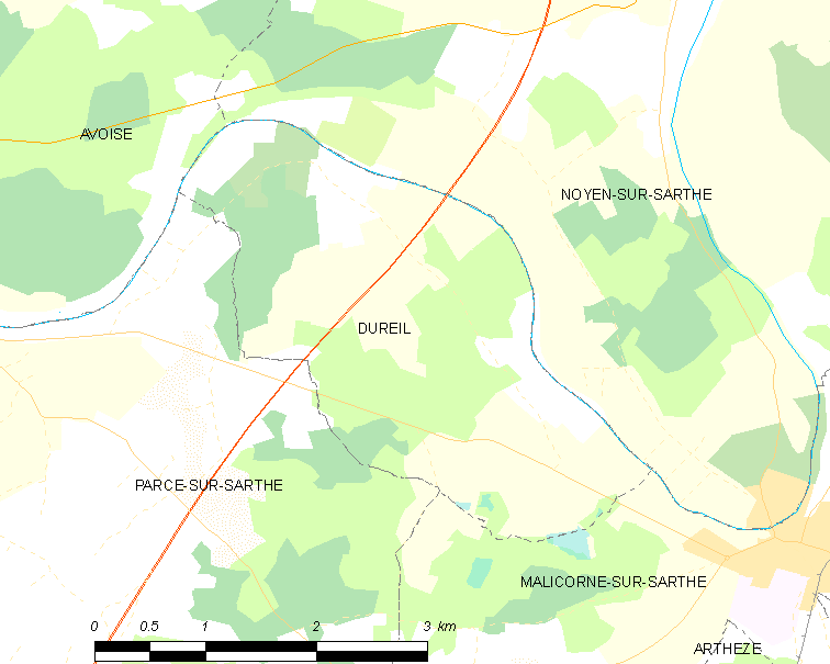 Map of French municipality